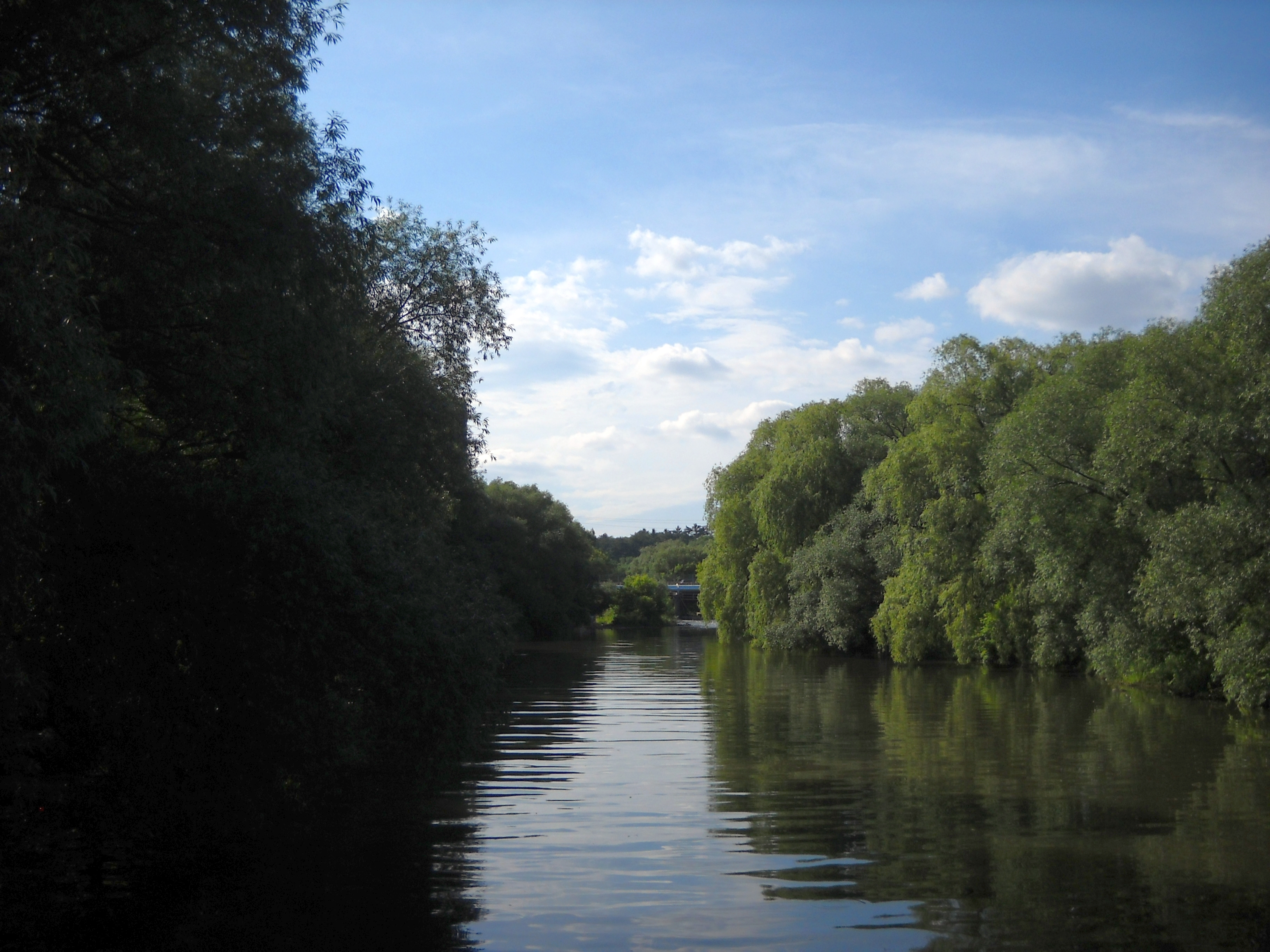 The Etobicoke Creek, looking north, within Marie Curtis Park.